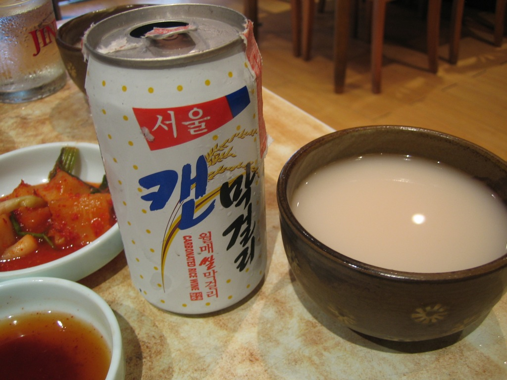 Sparkling rice wine in a can